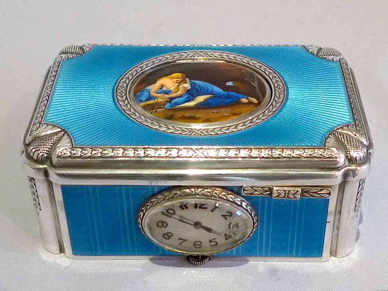 A Swiss solid silver and electric blue guilloché enamel singing bird box with clock to the front. The electric blue guilloche enamel on all sides and over fine engine turning. The lid of the box decorated with a painting based on the famous "The Penitent Magdalane" after Pompeo Girolamo Batoni (1701-1787), the painting hung in the Staaliche Museum in Dresden until it was destroyed in World War II. The Art Deco watch exhibits a fine clear dial. The finely decorated grille is very finely wrought. The box in the form of the earlier Bruguier boxes with canted corners and fine silver decoration around the top in a husk decoration and also around the bezel of the clock and operating lever in a conforming pattern. Made by Ramys of Geneva, Switzerland circa 1925. Fully marked on the base of the box. On sliding the operating piece, the lid opens and the full bodied bird pops through the grille & begins singing. It has a moving beak, the bird turns, flaps his wings and tail and after his performance pops down through the grille & the lid lowers. 4.5 inches wide by 3 inches deep and 2 inches high(11.25 cms by 7.5 cms by 5 cms). Swiss Circa 1925.